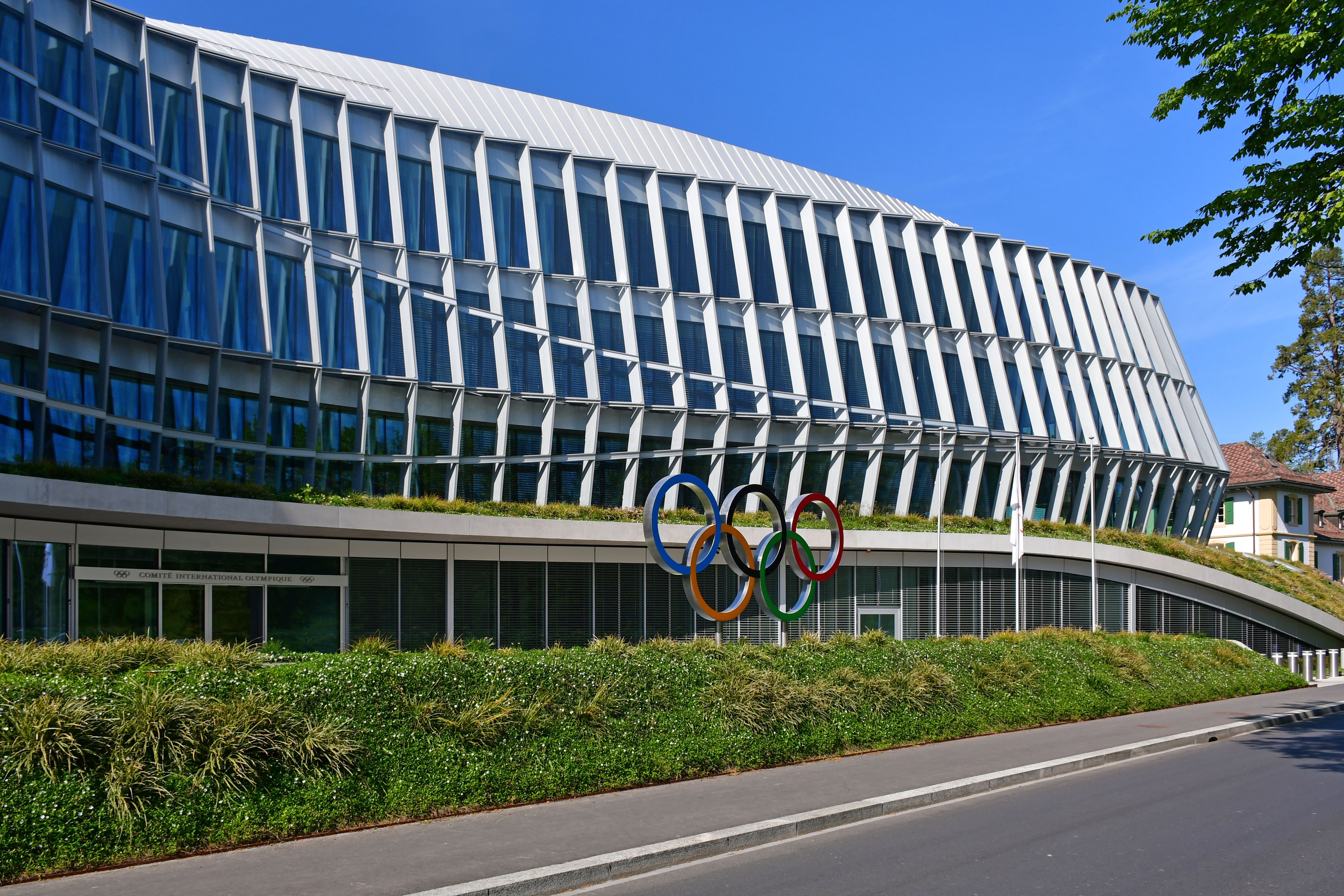 The IOC headquarters, in Lausanne (Switzerland).